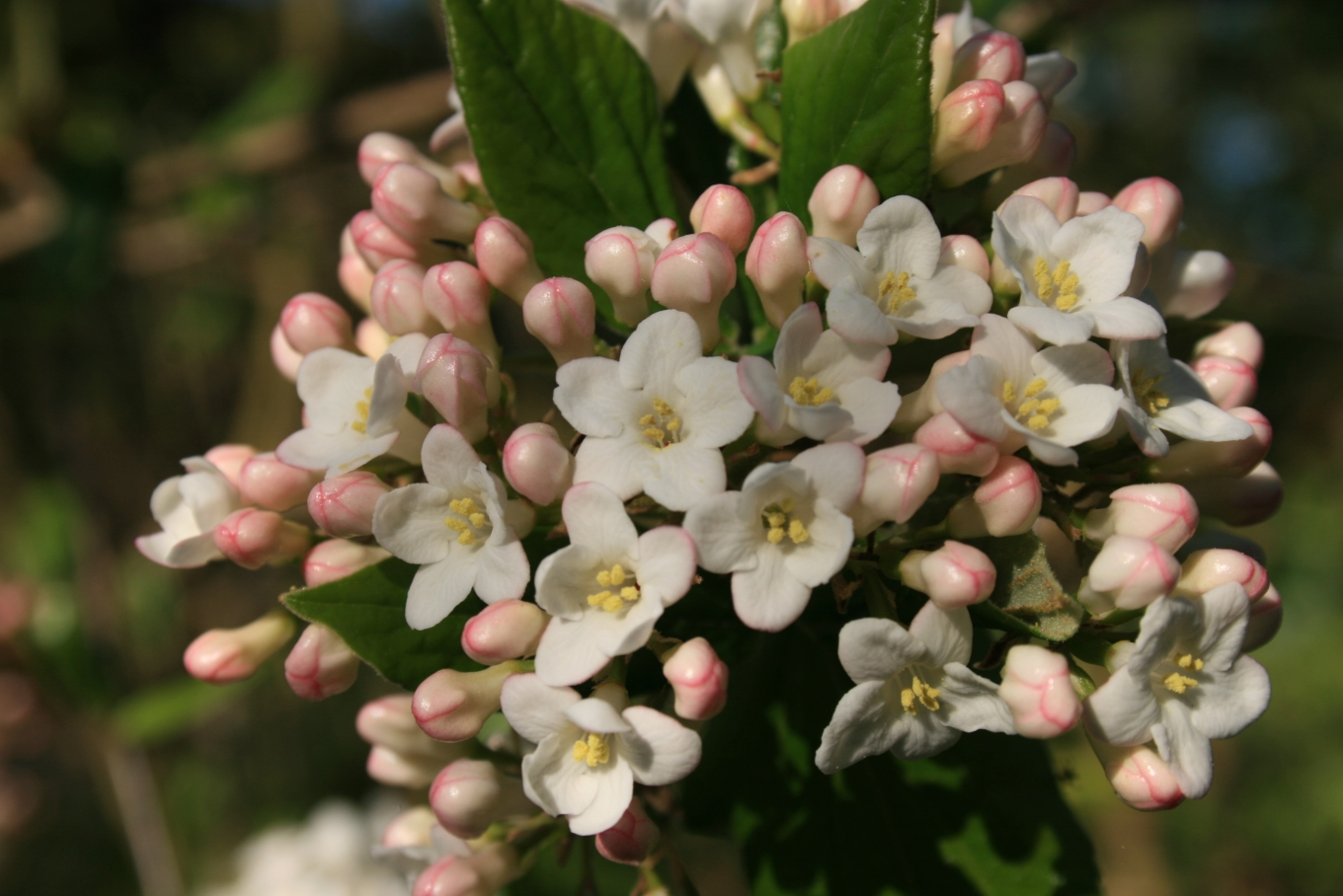 Viburnum x burkwoodii: Flowers